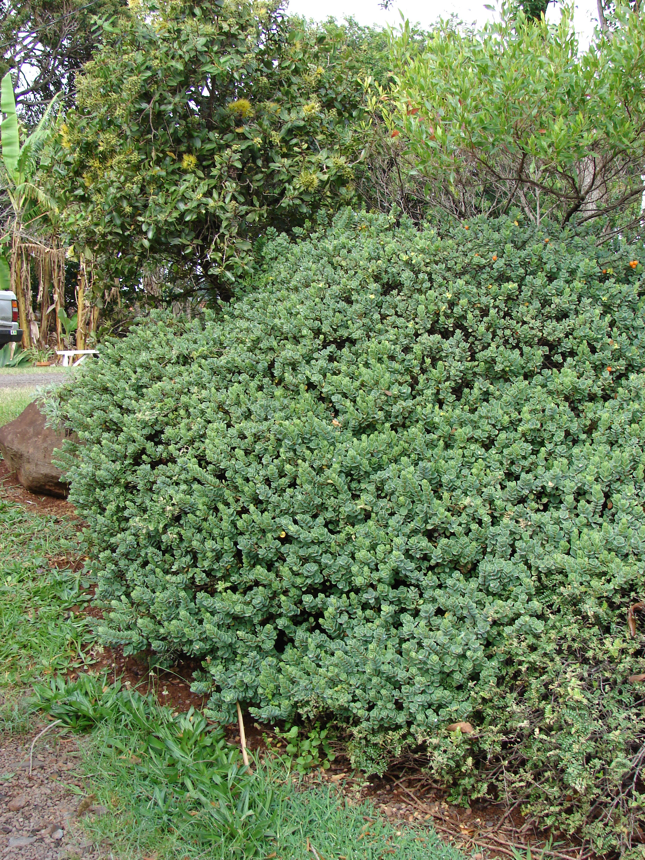 Wikstroemia uva-ursi (landscaping). Location: Maui, Makawao